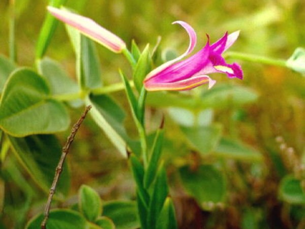 Cleistes libonii